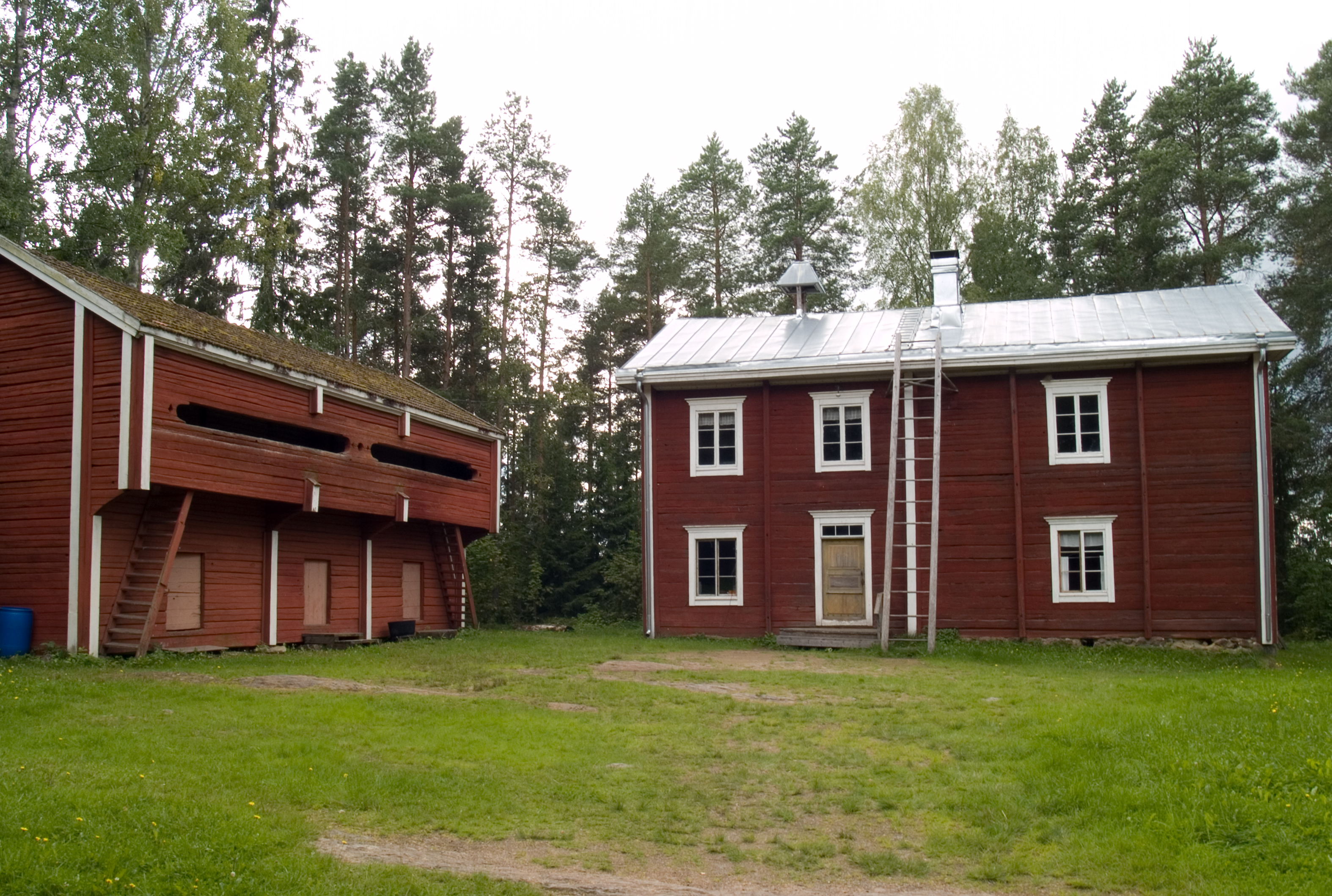 Ränkimäki farmhouse museum, Lapua, Finland, August 2012.